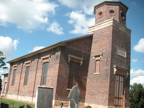 Historic St Bartholomew's Anglican Church, Prospect NSW. Built in 1841, the graveyard has a number of early settlers including William Lawson, who crossed the Blue Mountains with Blaxland and Wentworth.